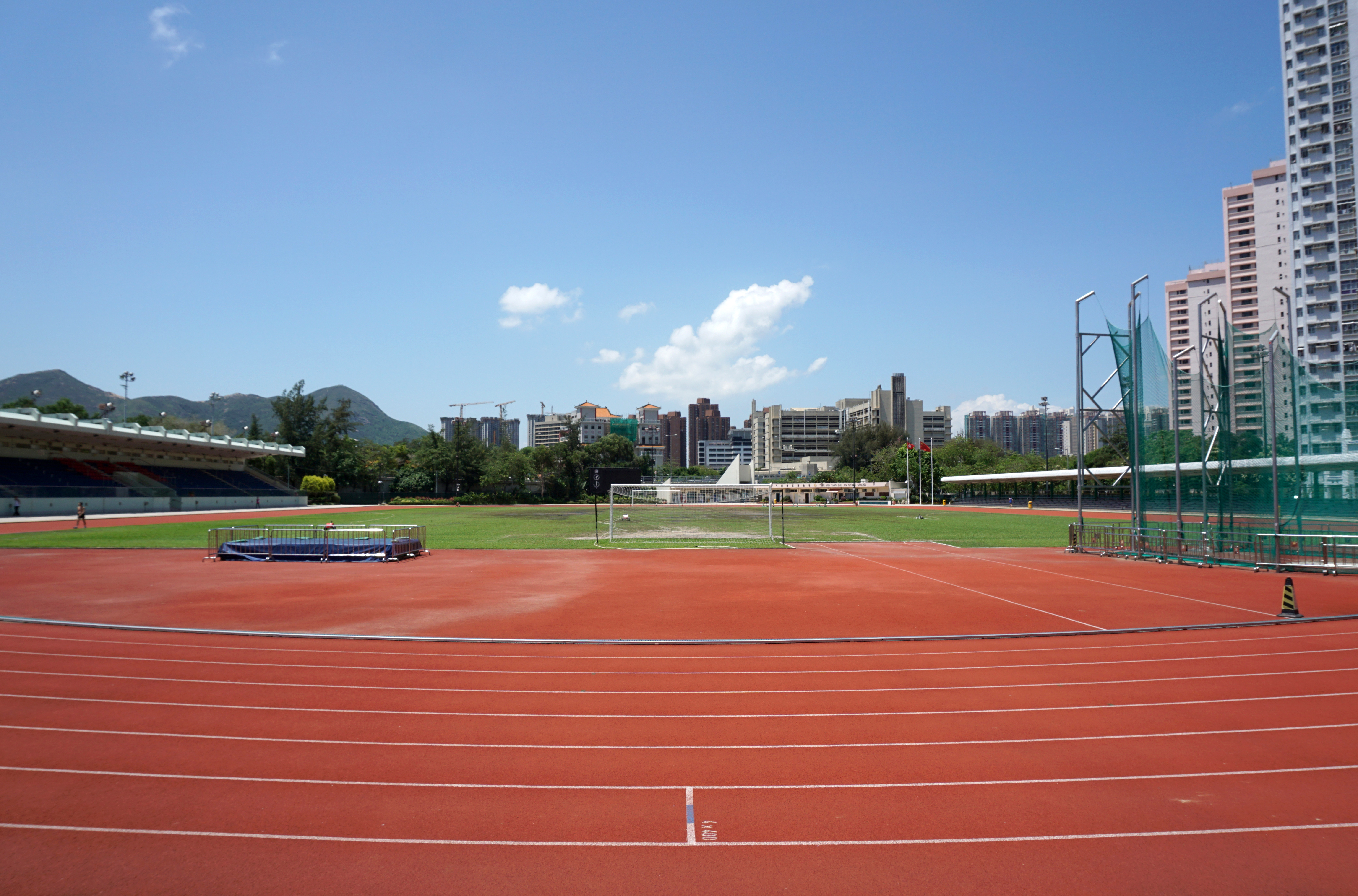 Tang Shiu Kin Sports Ground in Tuen Mun, Hong Kong.